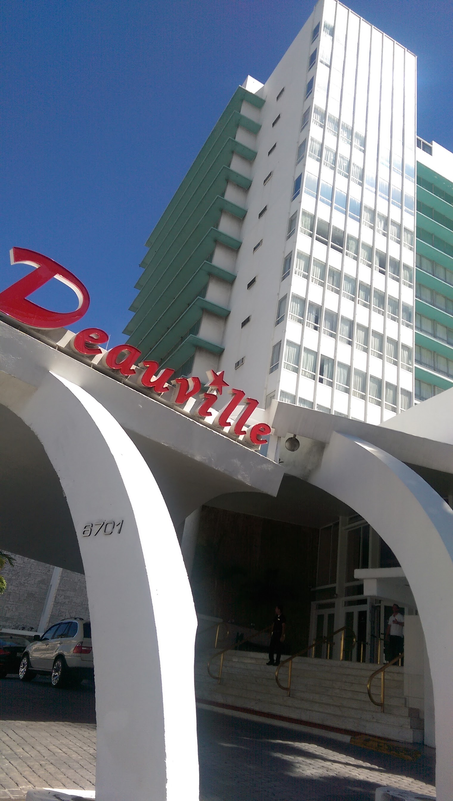 Deauville Beach Resort Entrance